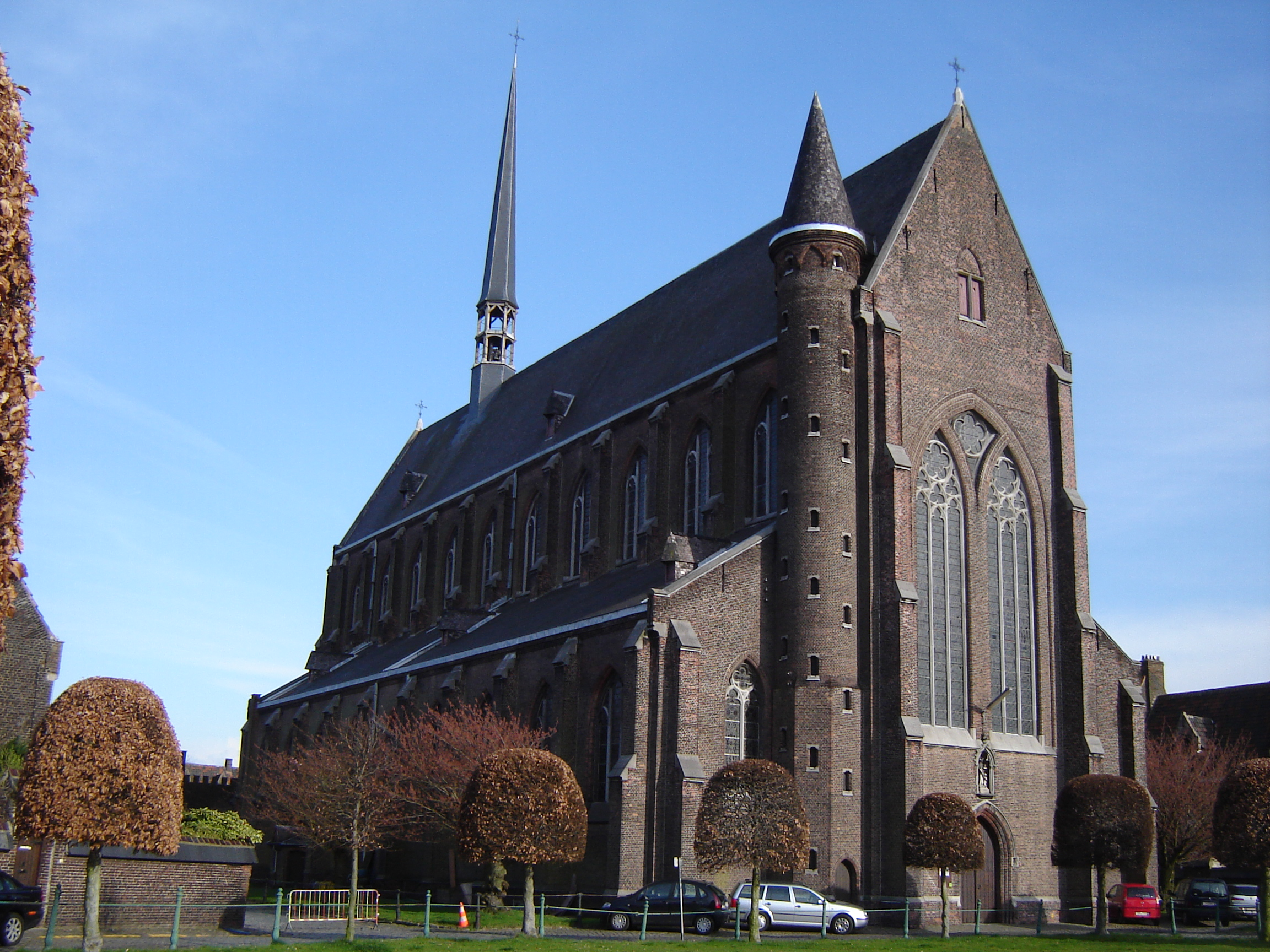 Church of the beguinage Groot Begijnhof Sint-Amandsberg. Sint-Amandsberg, Gent, East Flanders, Belgium